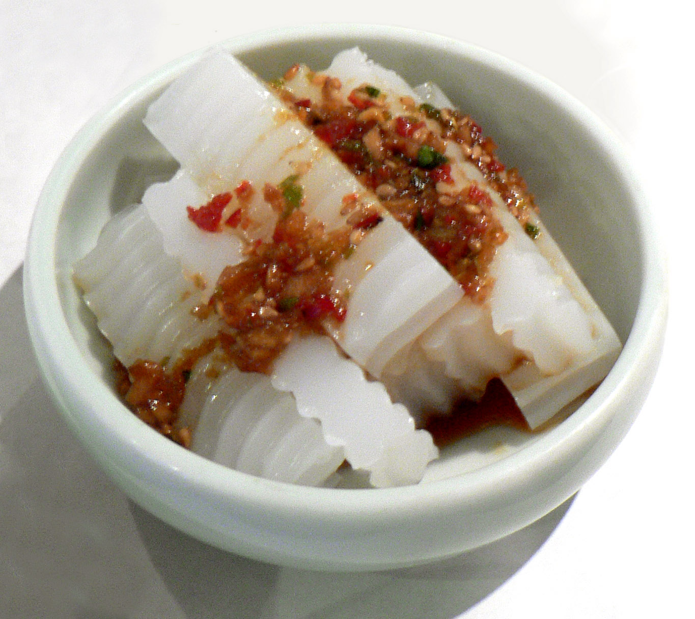 녹두묵, 또는 청포묵, Nokdumuk or also called Cheongpomuk, , which literally means "clear froth jelly. It is made from mung bean starch.